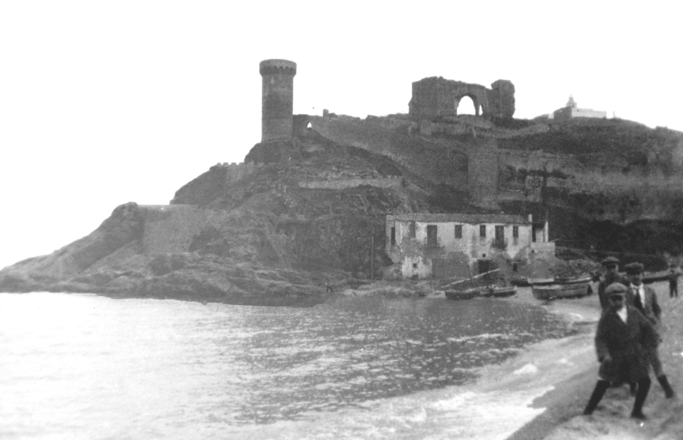 Tossa de Mar